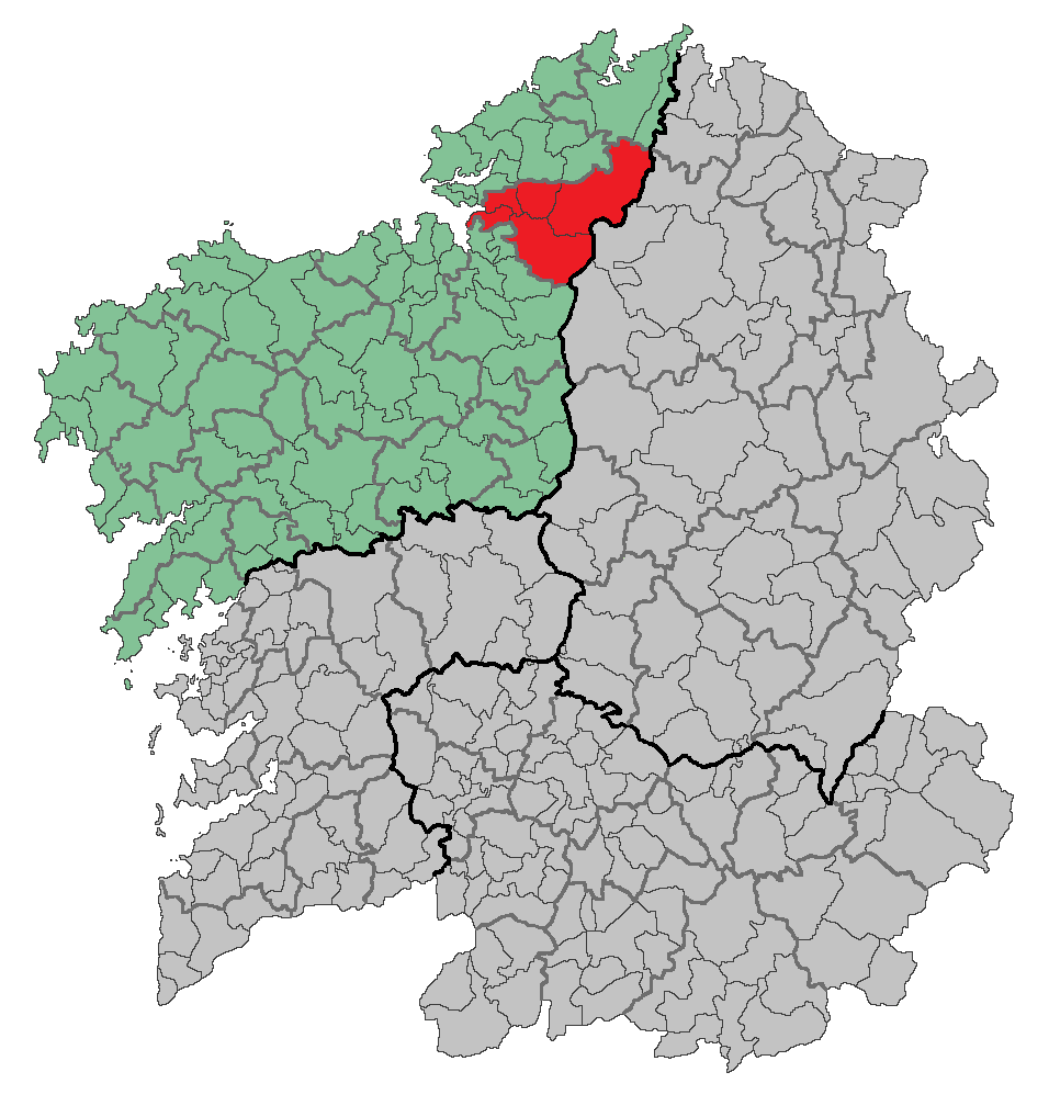 Region of Galicia (Spain)Based in: Image:Location of Puentedeume.png Source: Designed by Leoplus. Original picture, designed by Caiser over a work made by Alyssalover.